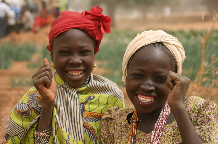 Girls laughing near Tahoua, Niger, Africa.